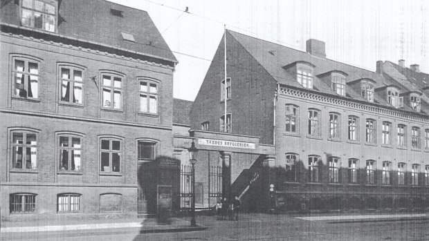 Tvedes Bryggeri (Tvede's Brewery) on Vesterbrogade (No. 140 and 142) in Copenhagen, Denmark